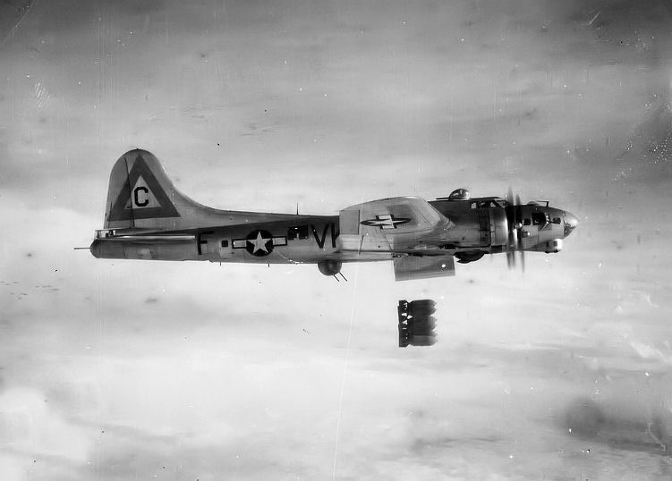 unidentified 358th Bombardment Squadron, 303d Bombardment Group B-17 on a bomb run